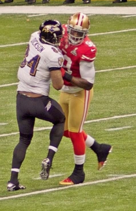 Baltimore Ravens running back Ray Rice is tackled by 2 San Francisco 49ers defensive players during Super Bowl XLVII.